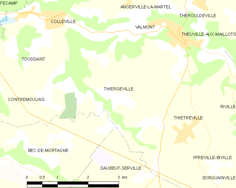 Map of French municipality Thiergeville